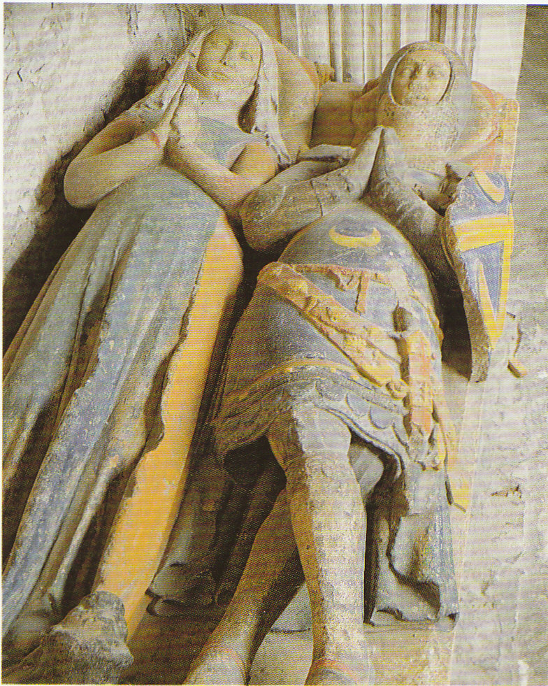 Tomb effigies of Katherine de Turberville and Sir Roger Berkerolles (d.1351) at St.Athan's Church, Glamorgan.